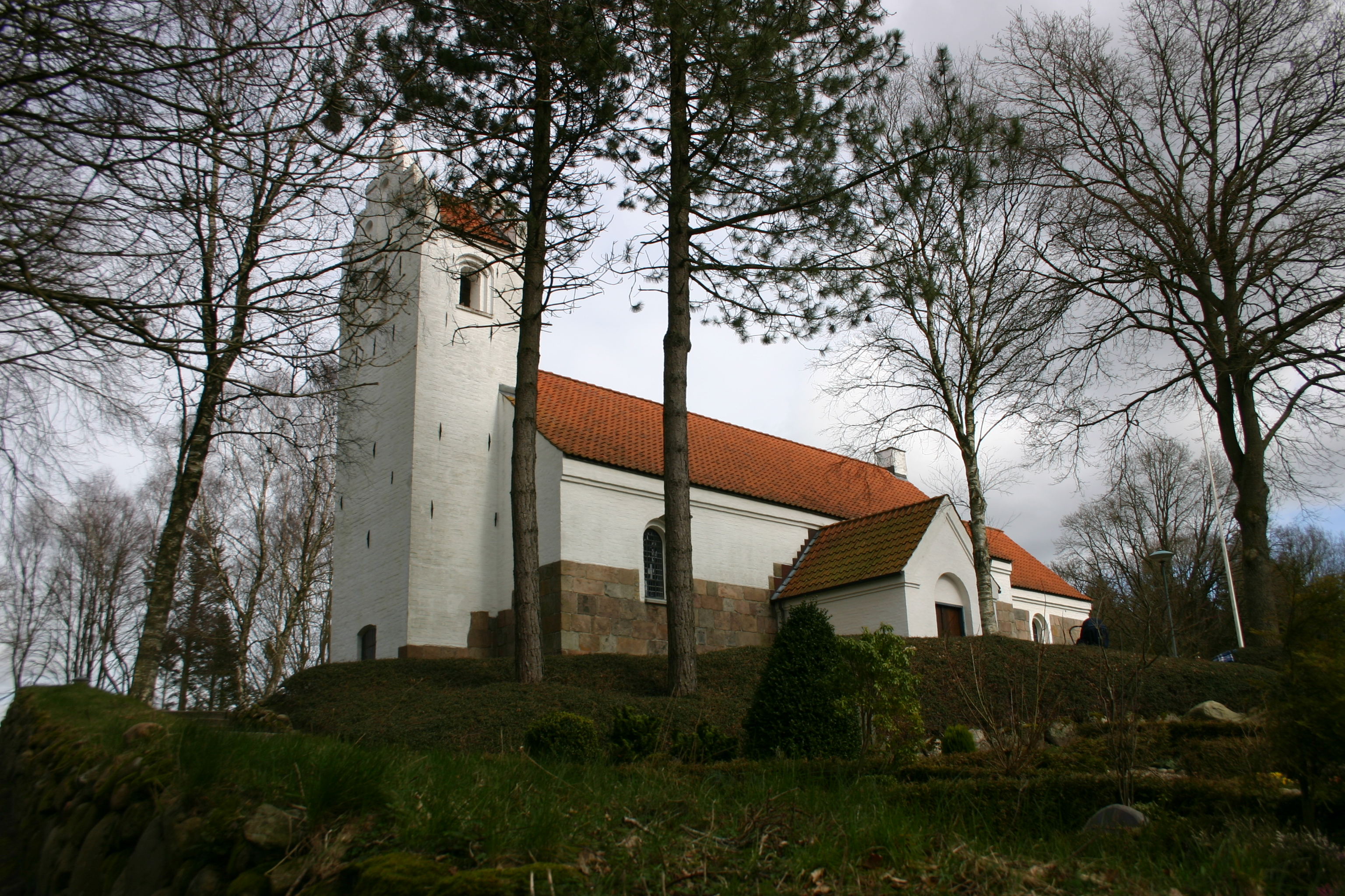 View from Southwest of Hammer Church, Hammer Bakker, Denmark.